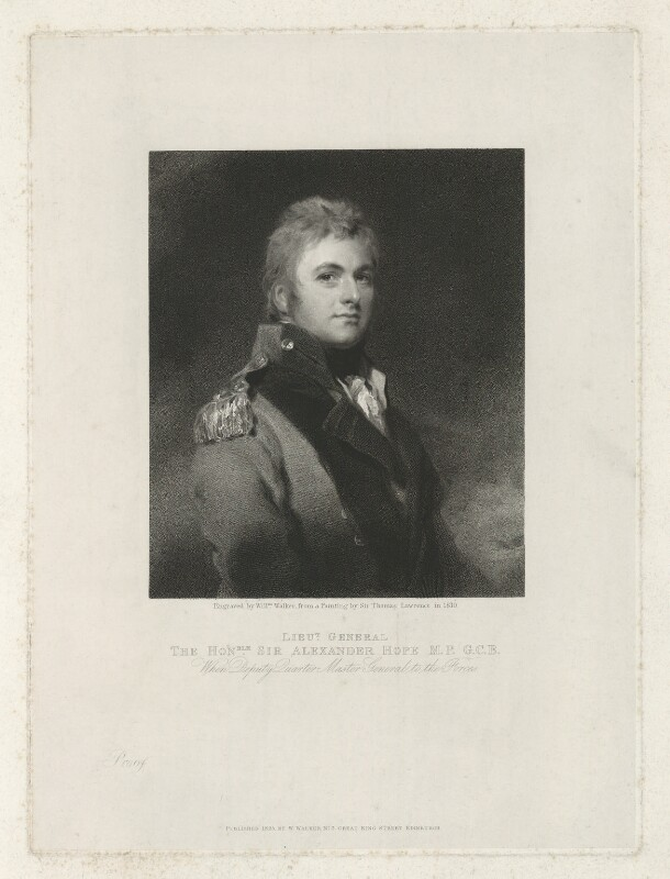 Portrait Sir Alexander Hope while he was serving at Lieut. Gen. Deputy Quarter Master to the Forces Sir Alexander Hope by and published by William Walker, after Sir Thomas Lawrence stipple engraving, published 1825 (1810) NPG D35979 National Portrait Gallery, London